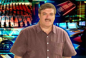 Author and Radio Personality Jim Harrington